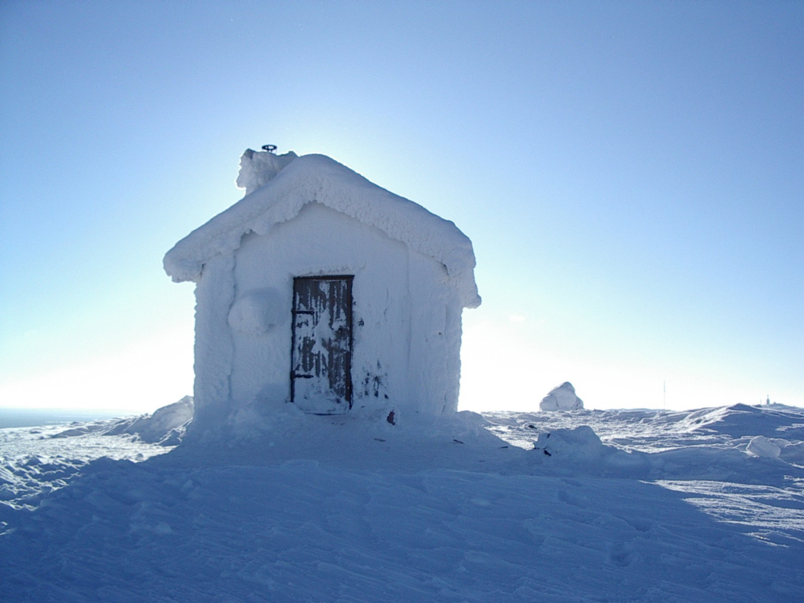 A snow-covered hut (Valtavaara Day Trip Hut) on the top of Valtavaara, on Karhunkierros Trail, Kuusamo, Finland. Originally for a fire guard.